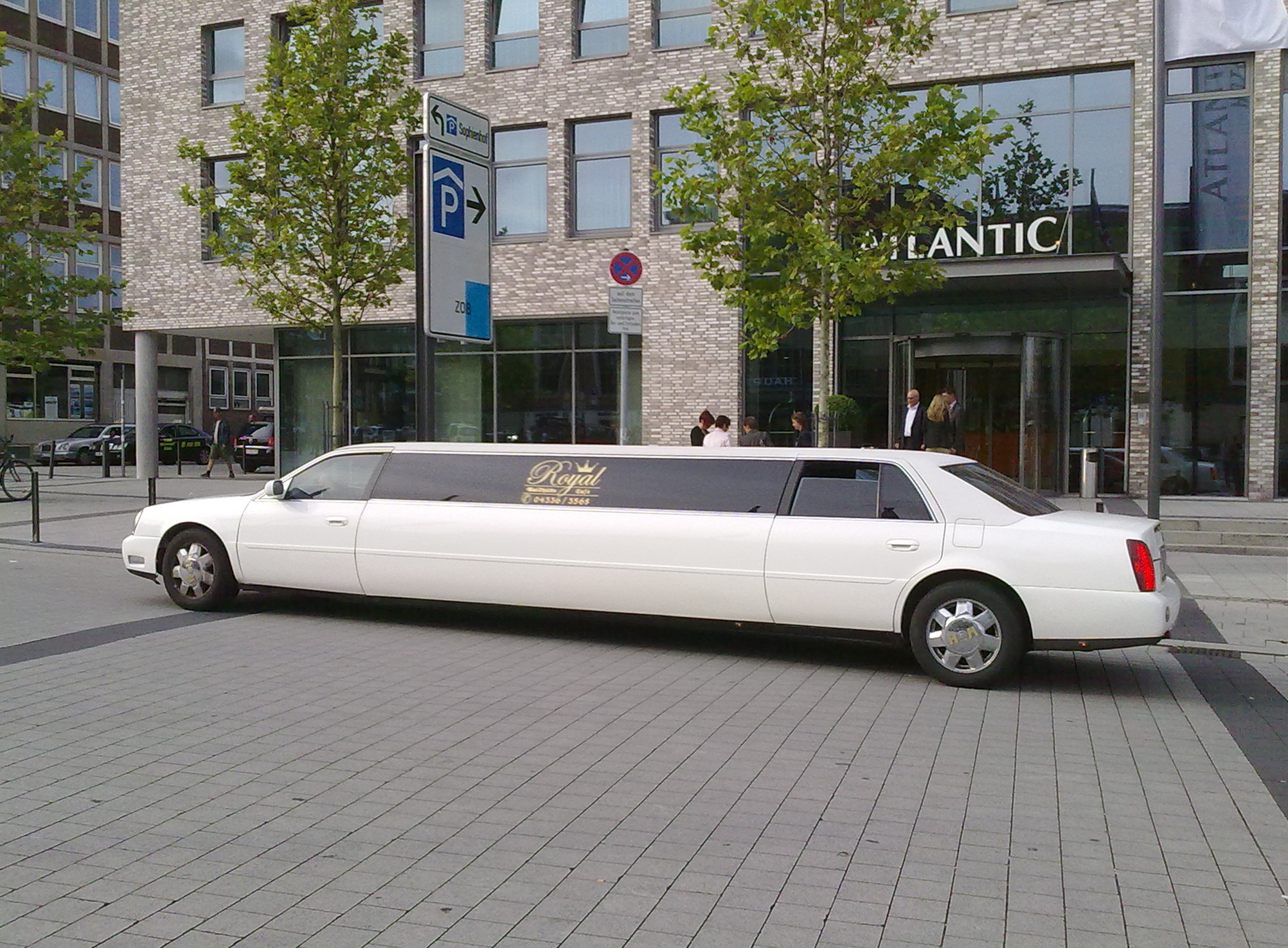 A white stretch limousine in front of a hotel.